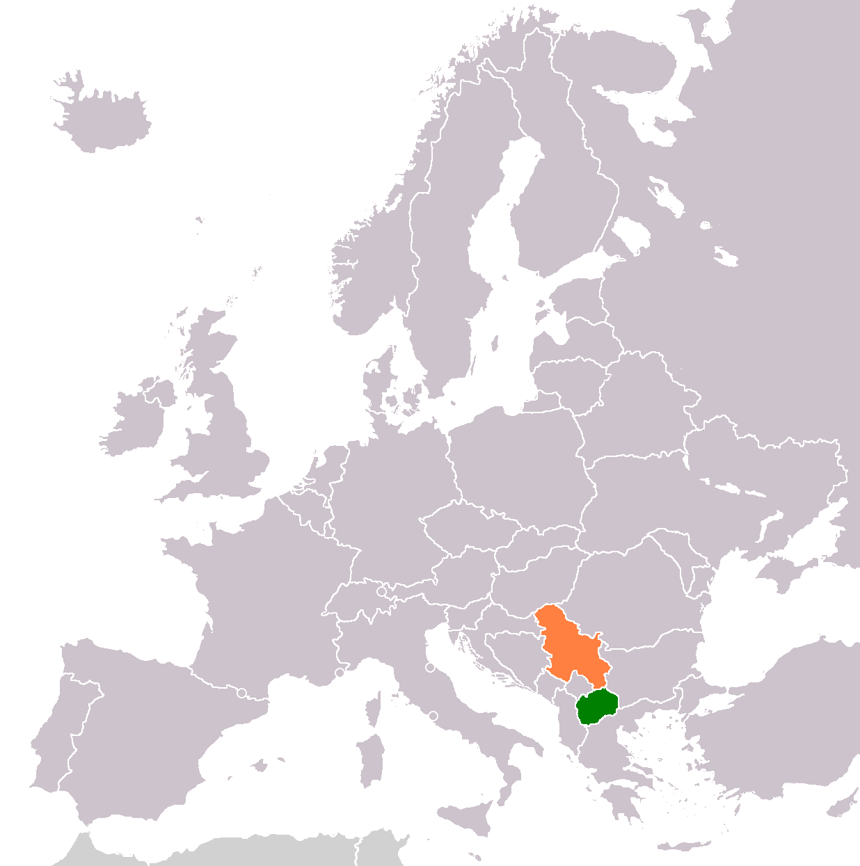 Location of North Macedonia and Serbia.